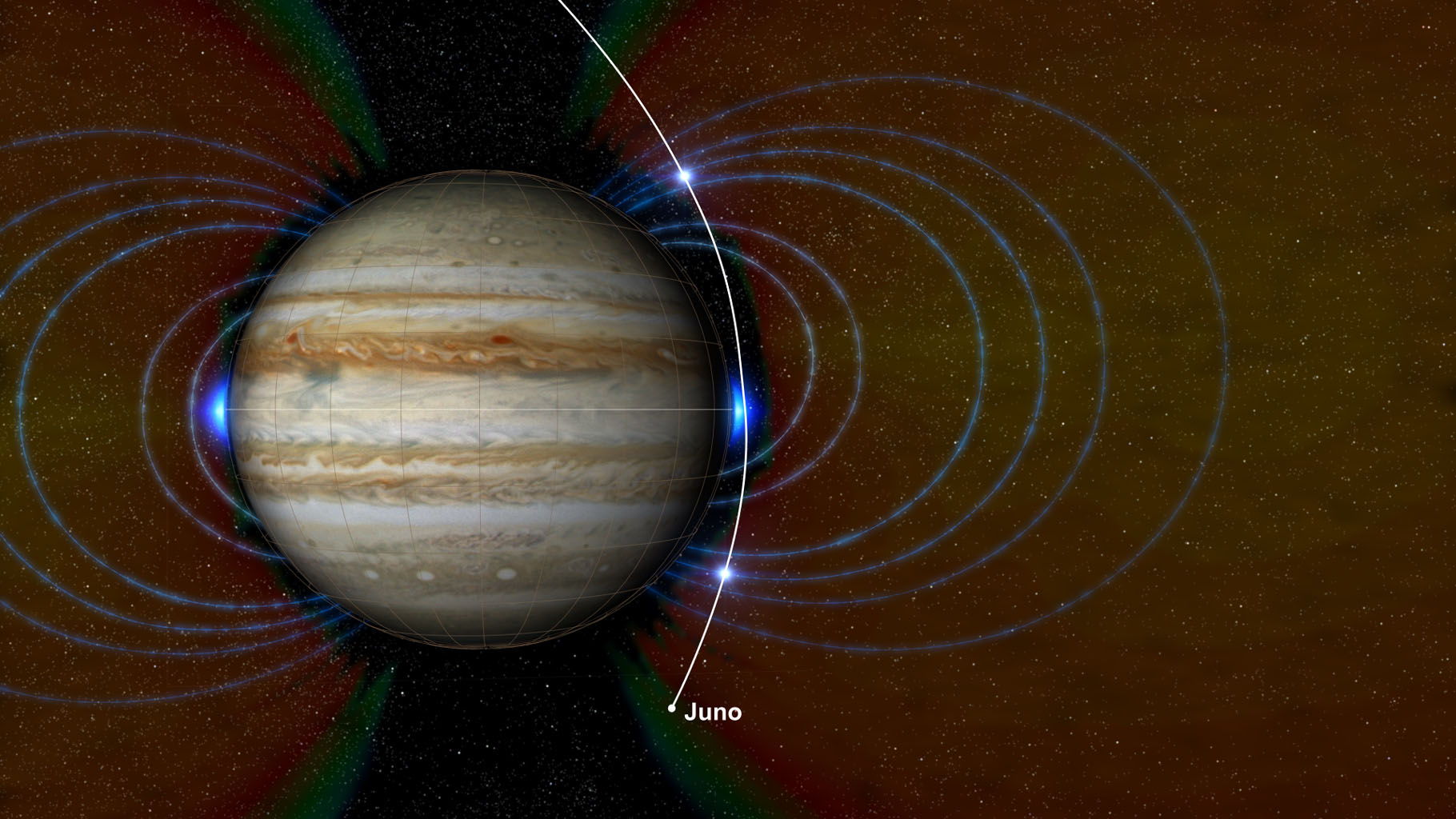 This graphic shows a new radiation zone Juno detected surrounding Jupiter, located just above the atmosphere near the equator. Also indicated are regions of high-energy, heavy ions Juno observed at high latitudes.